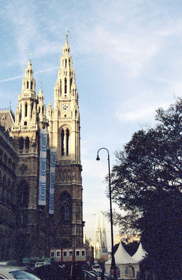 The Rathaus (city hall) in Vienna, Austria (with banners for the Viennale film festival). In the background the towers of the Votivkirche are visible.